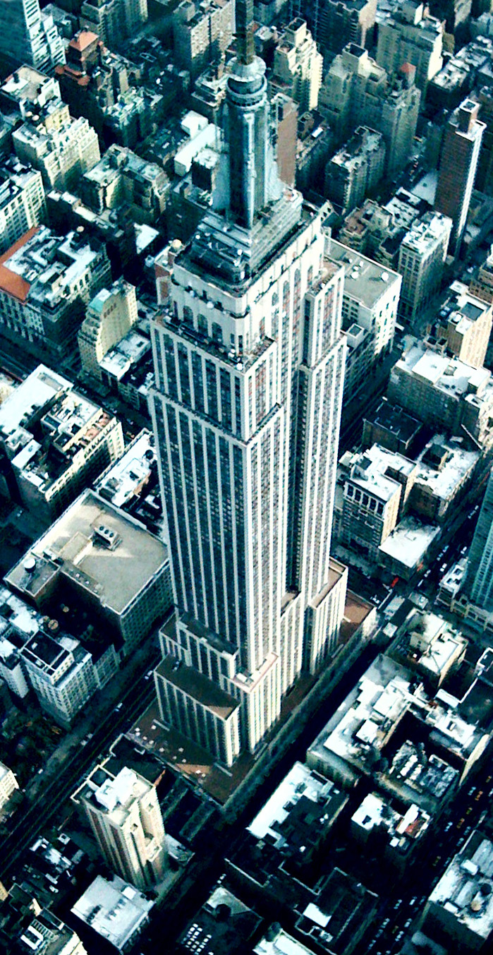 Empire State Building